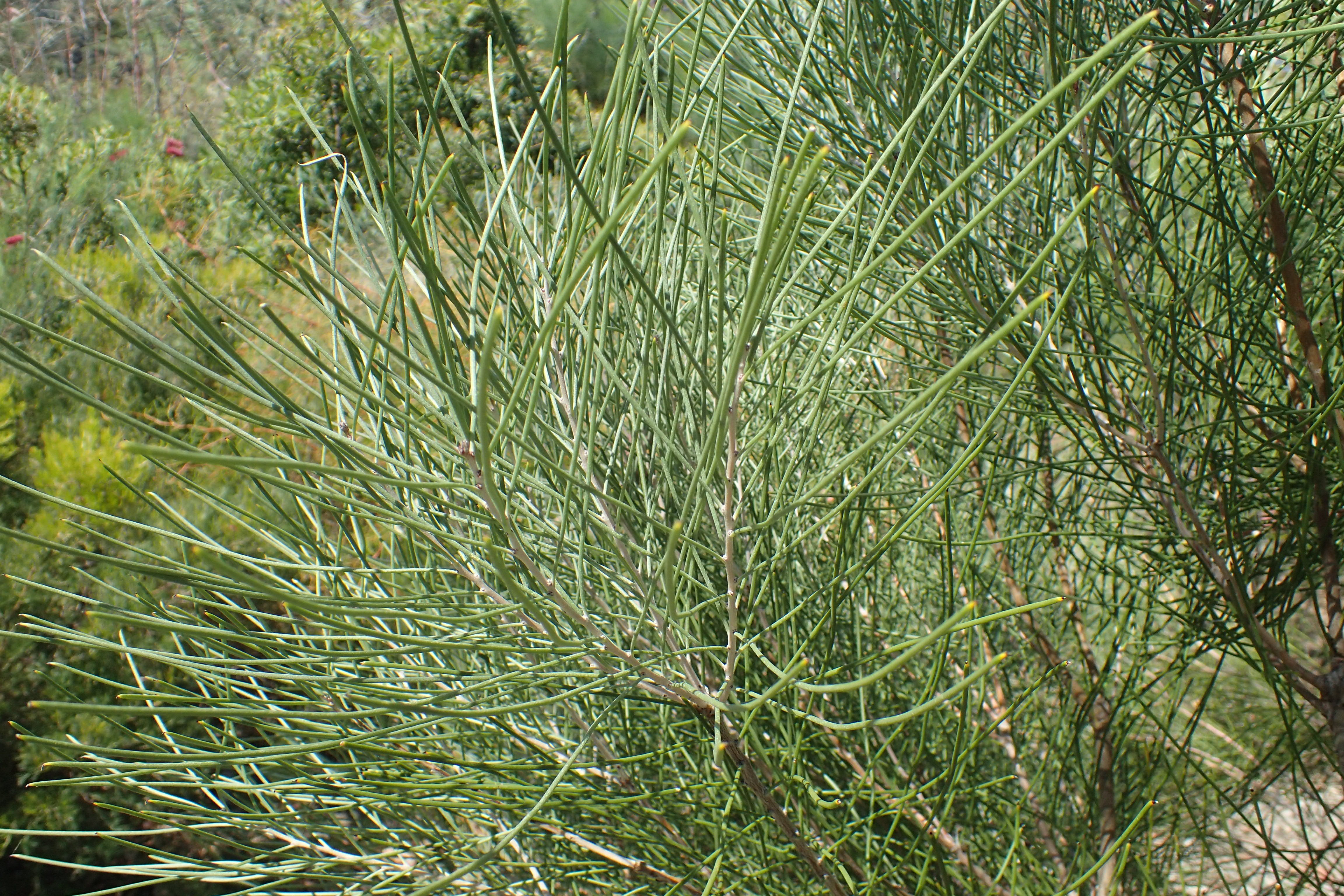 Foliage of Hakea rhombales in Kings Park Botanic Garden